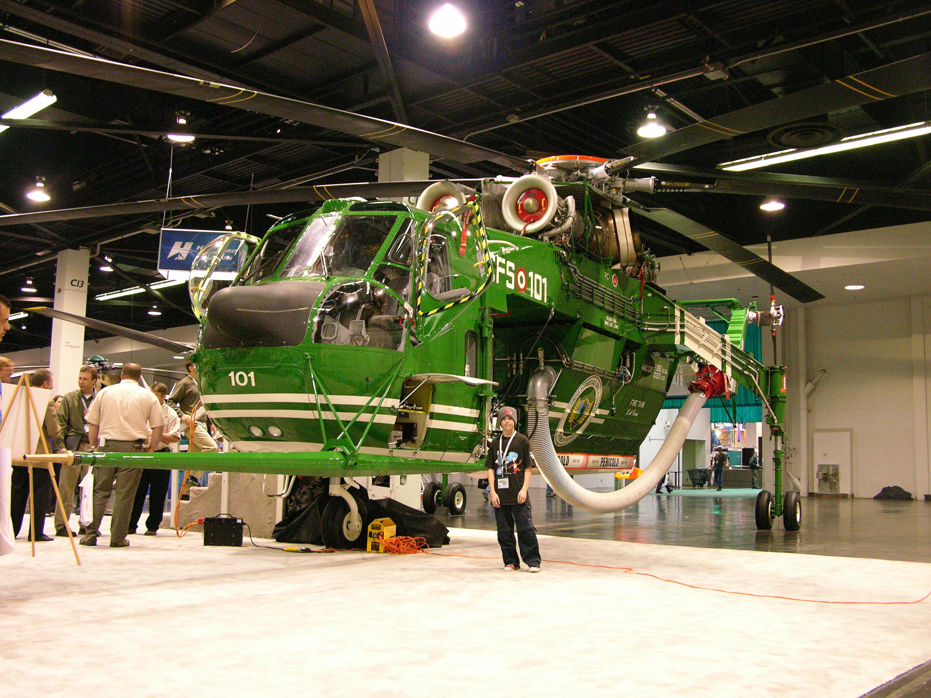 S-64 on display at the 2005 HAI HeliExpo